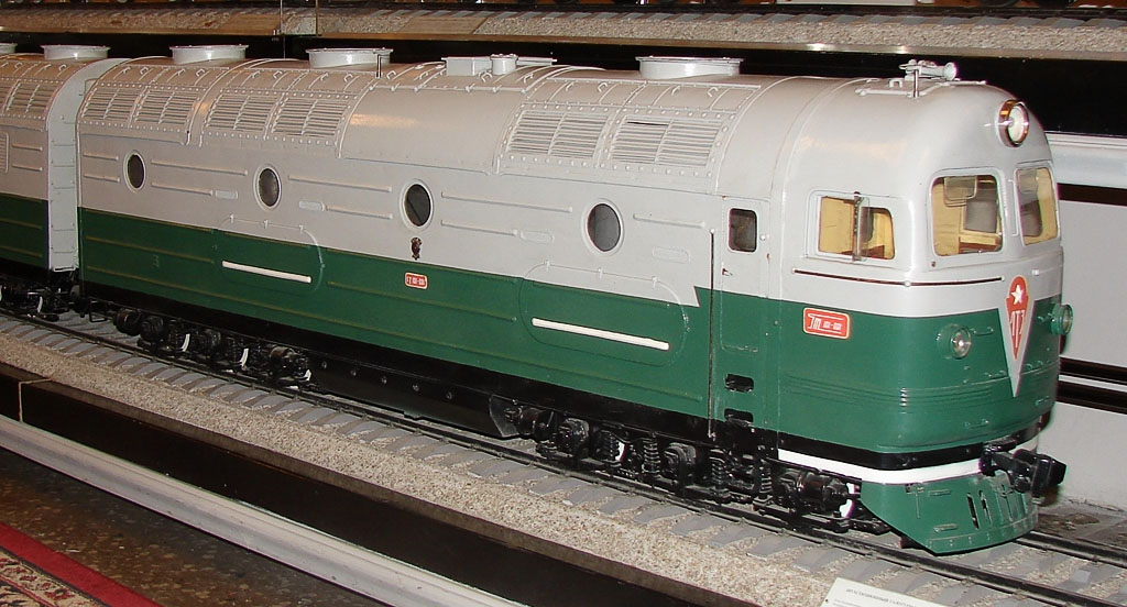 Model of the Soviet experimental gas-turbine locomotive GT101 in Railway Museum in Saint-Petersburg, Russia